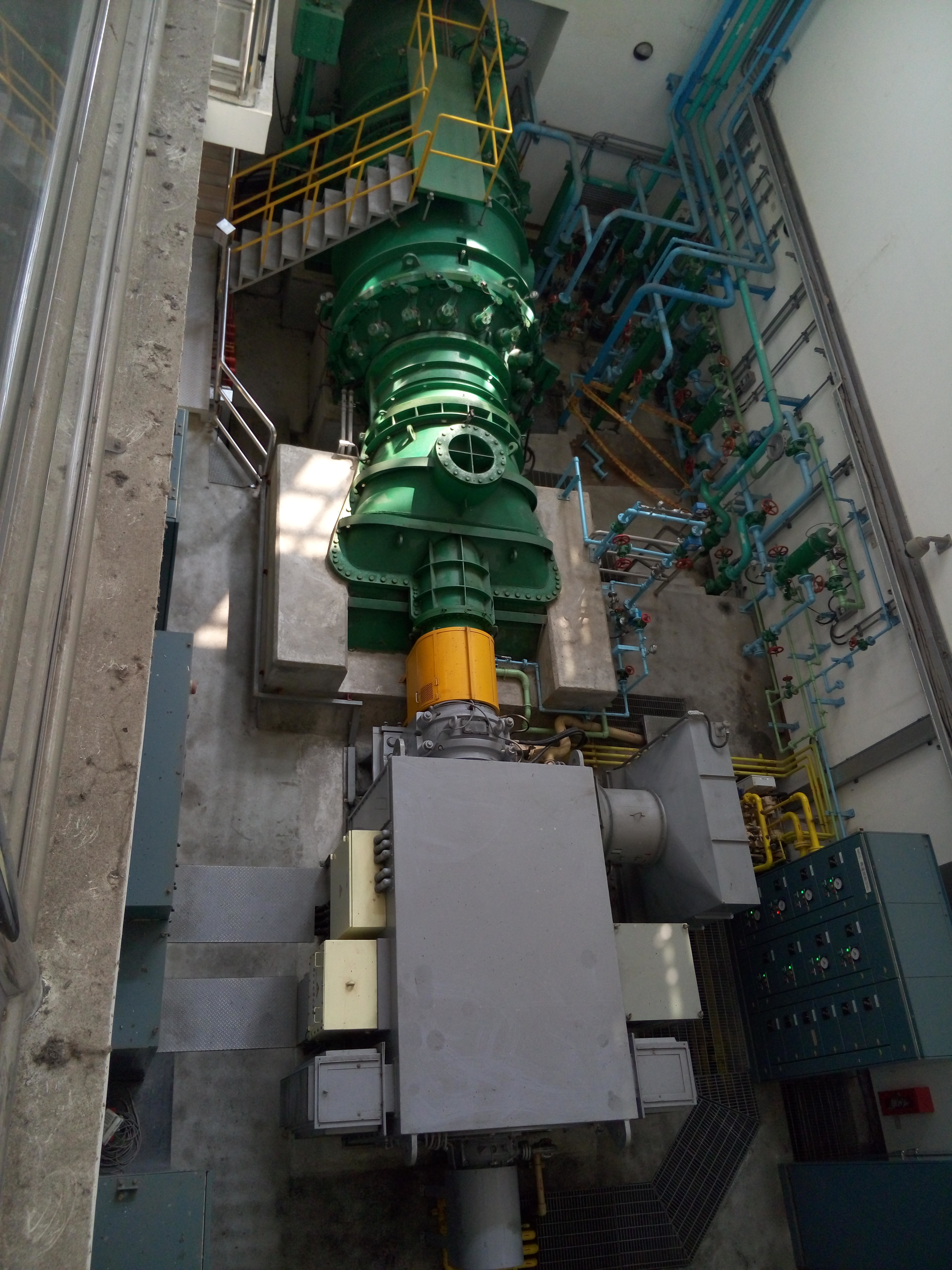 Kao-Ping Hydro Power Plant Chu-Men Unit